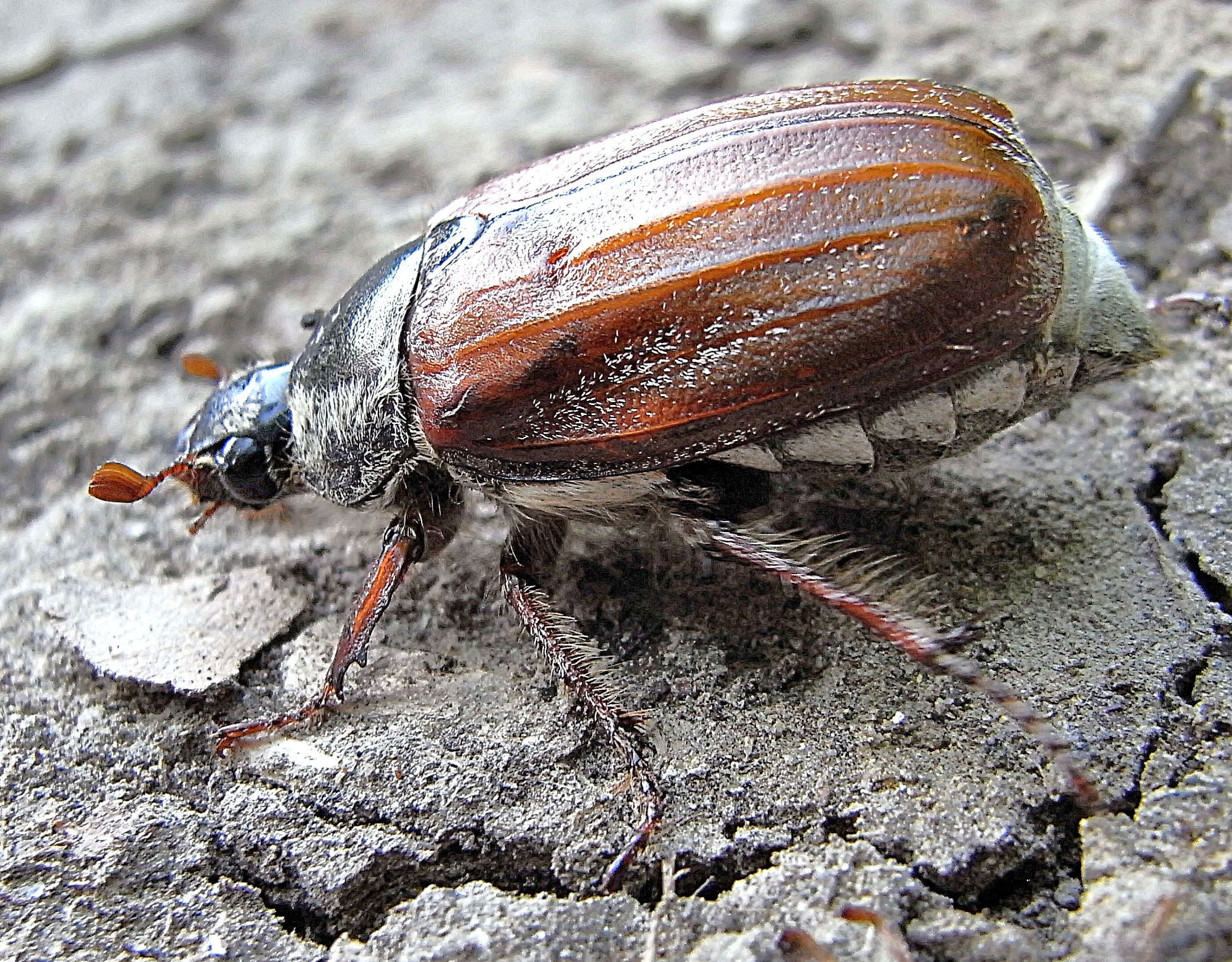 Melolontha pectoralis from Hungary, at 2010-06-12 in Zemplen-mountains Ricoh R8